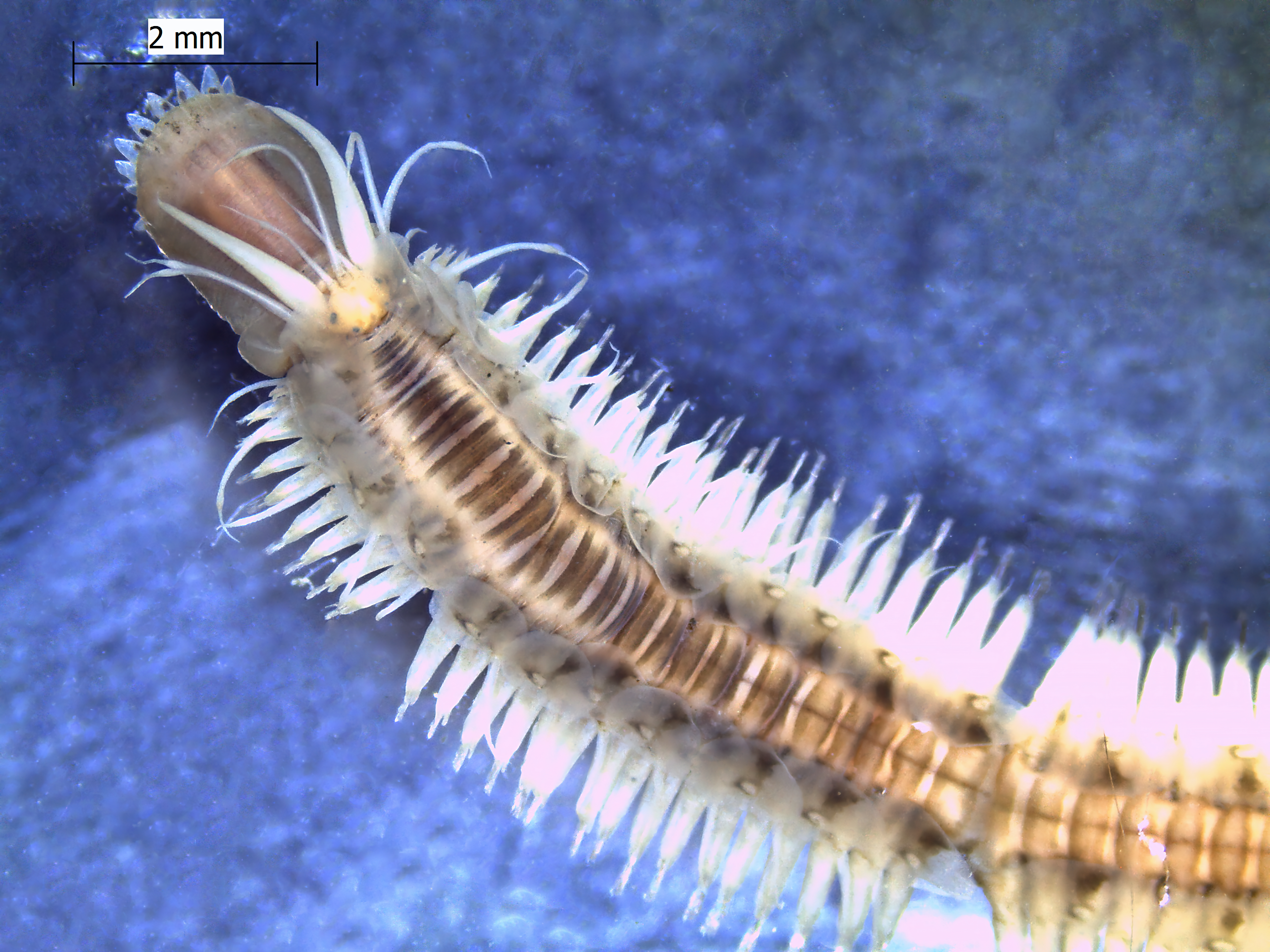 Collected from Puget Sound sediments and photographed by the Washington State Department of Ecology’s Marine Sediment Monitoring Team. For more information about this team’s work visit